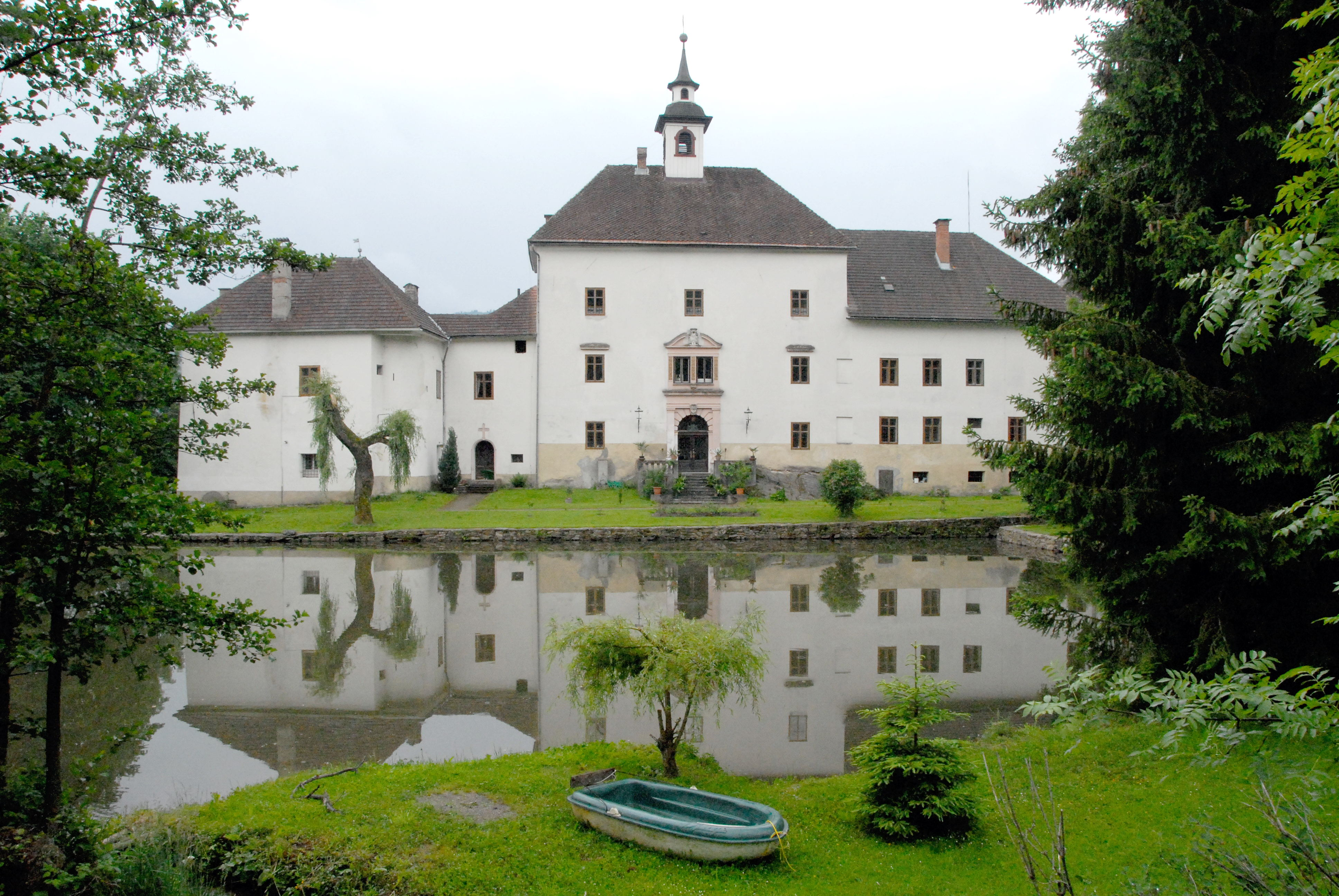 Northern view at castle Rothenturn, municipality Spittal an der Drau, Carinthia, Austria, European Union